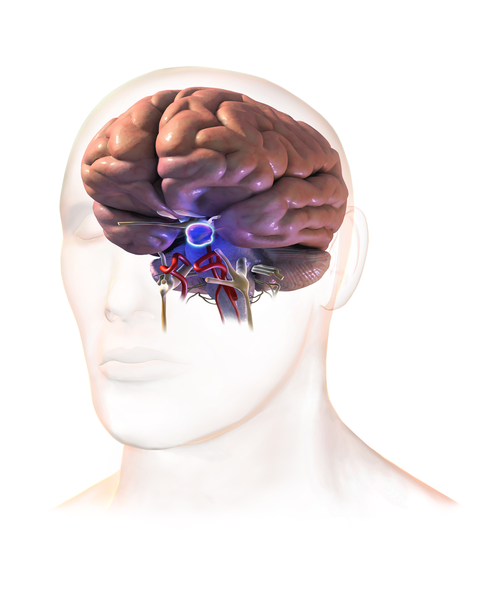 PituitaryTumor. Animation in the reference.[1] This image was donated by Blausen Medical.